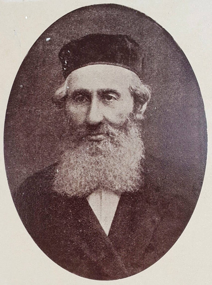 a picture taken by me in Hhaskala street exhibition, Tel-Aviv